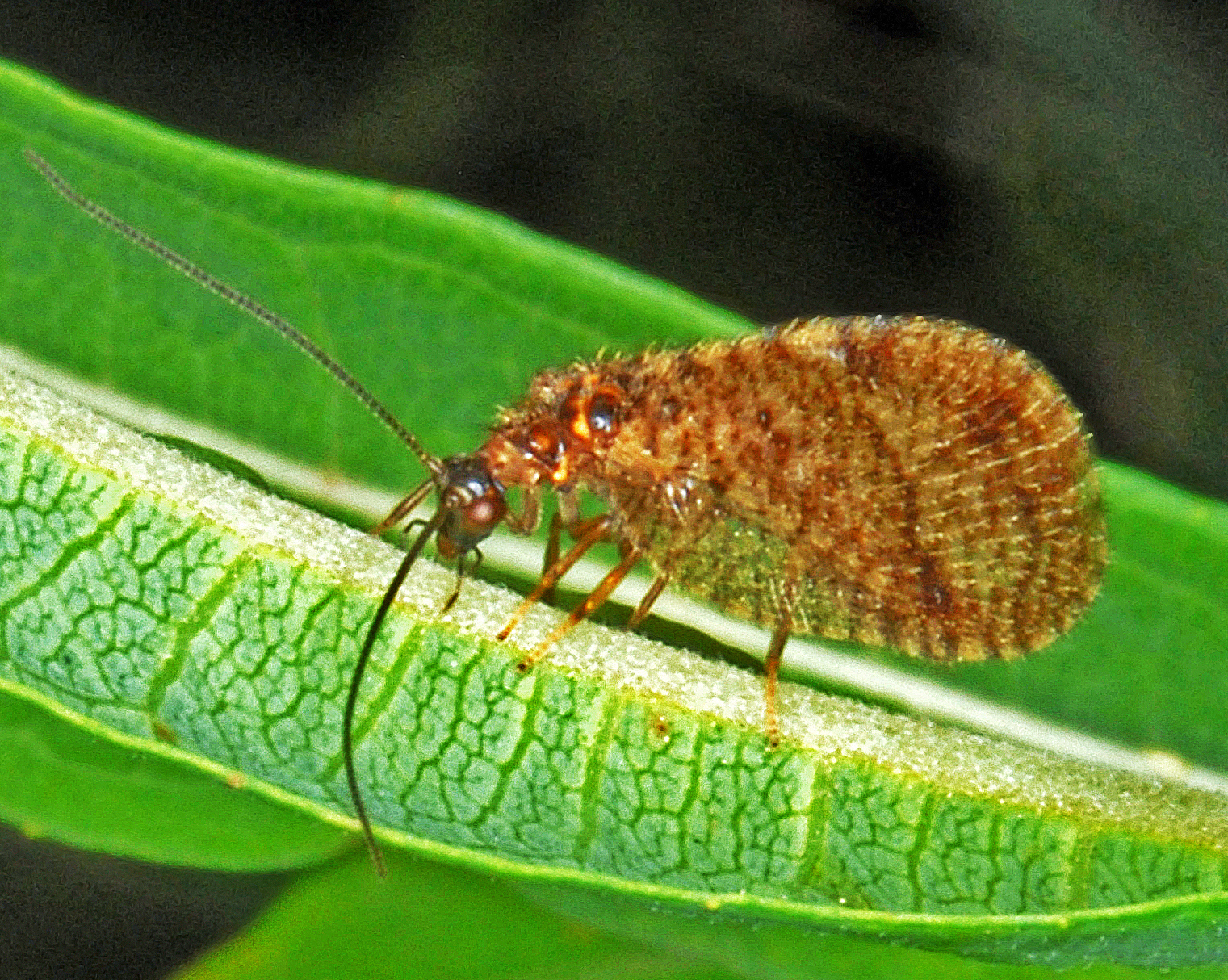 Megalomus tortricoides (cf.). La Thuile, Aosta, Italy